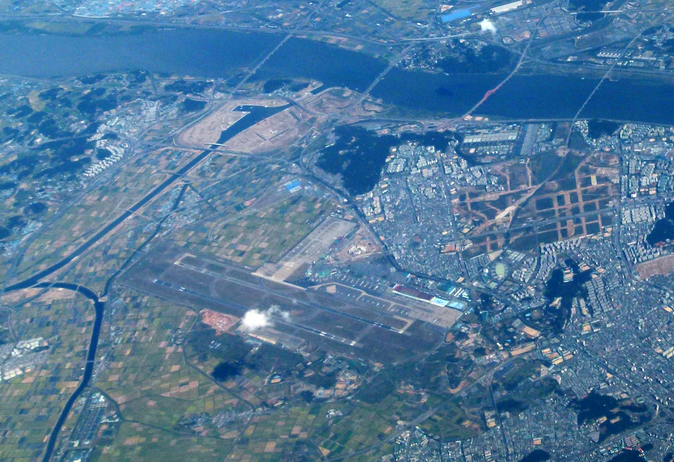 Bird's eye view of the Gimpo International Airport, Seoul